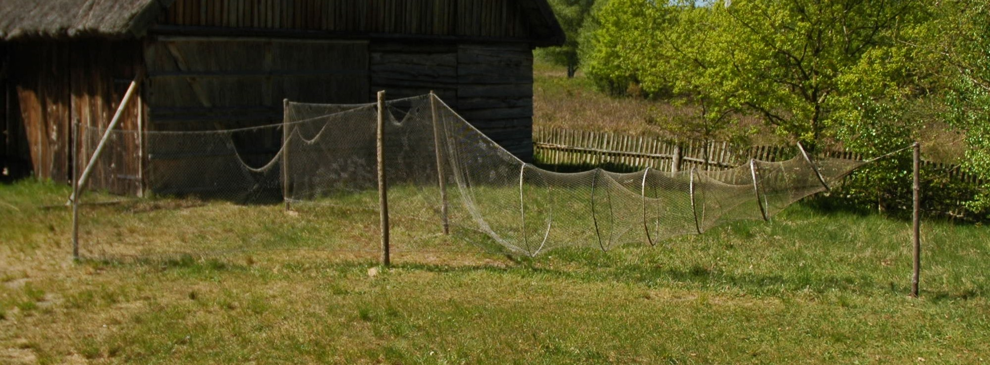 Poland, Kluki - trawling net in open air museum.